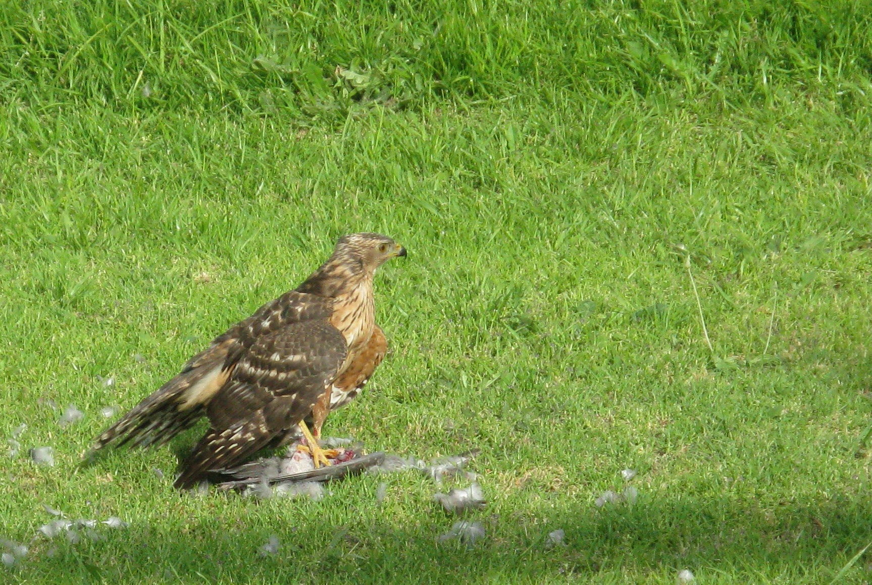 Accipiter melanoleucus. Black sparrowhawk. Immature female. Typical brown plumage before moult into adult black-and-white.